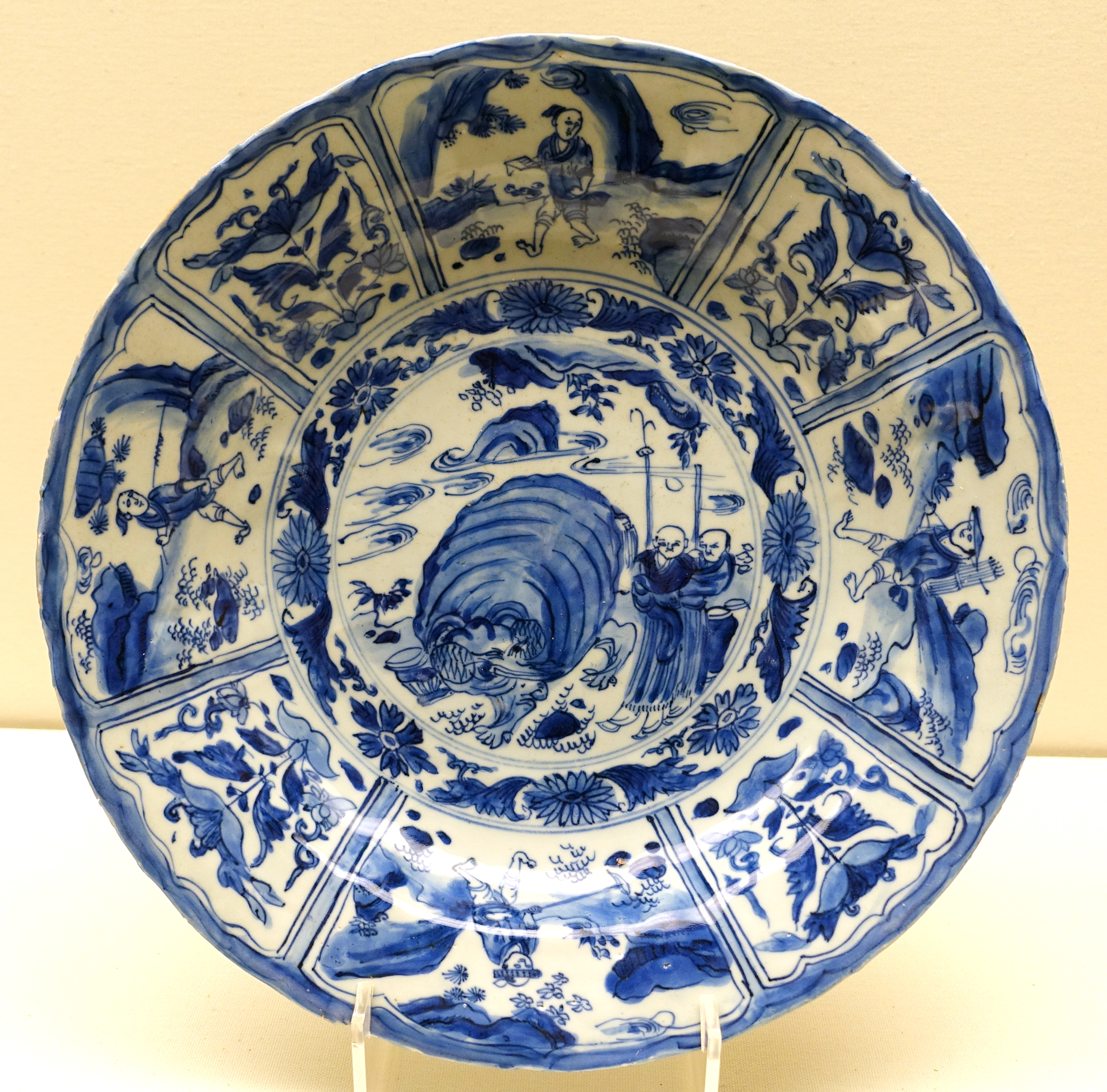 Exhibit in the Ethnological Museum, Berlin, Germany.